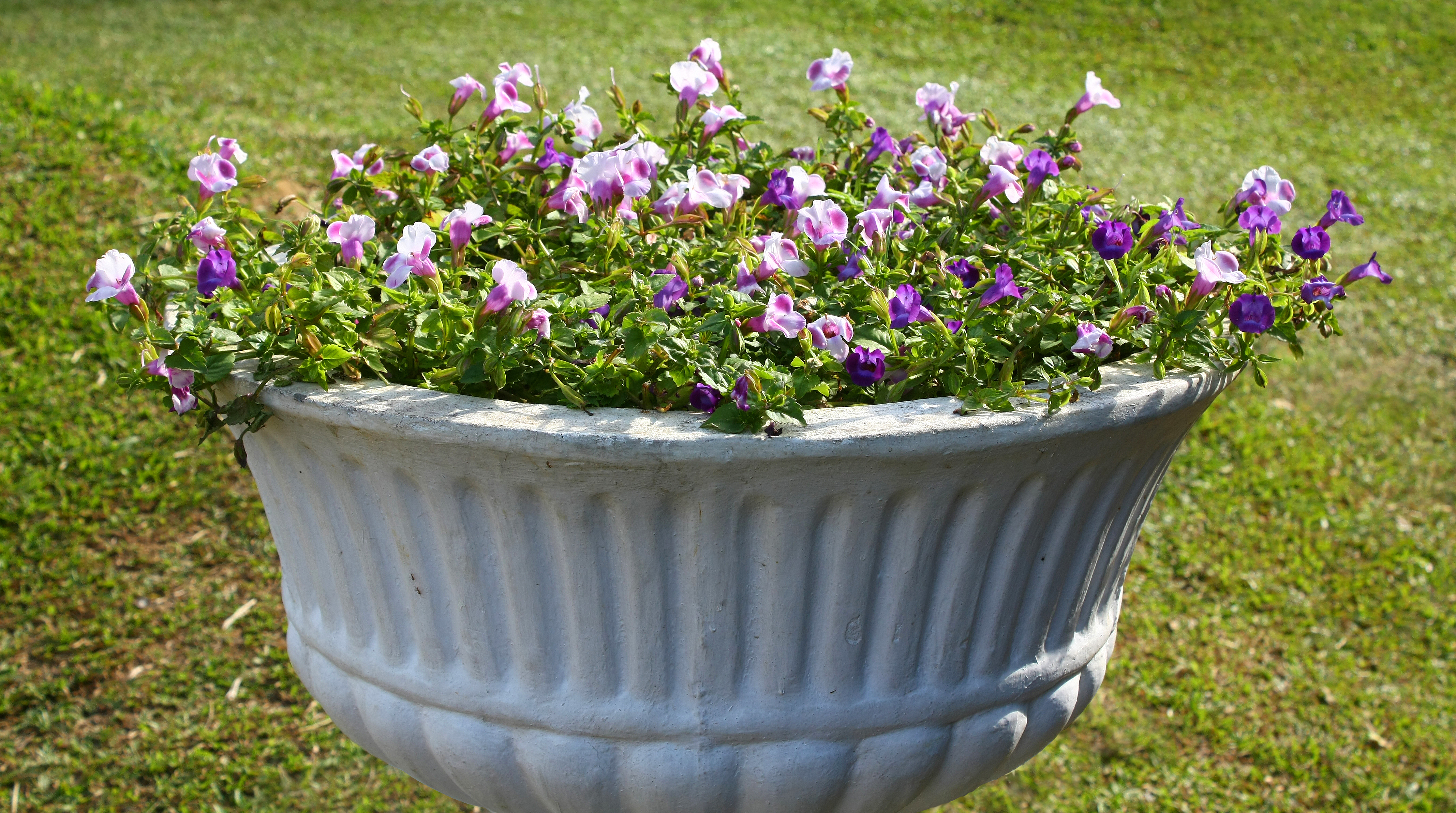 Flowerpot, Royal Botanical Gardens, Peradeniya, Sri Lanka.